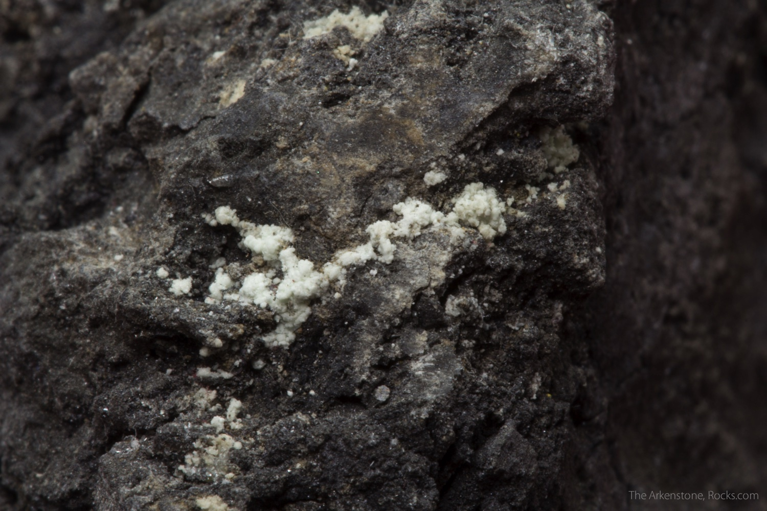 9.0 x 5.5 x 5.0 cm. A very good specimen exhibiting white botryoidal kaatialaite, a hydrous iron arsenite, in vugs within a gray-black mass of skutterudite. From the silver-rich, uranium-bearing polymetallic vein deposits of the historic Erzgebirge (Ore Mountains) of the Czech Republic. From the Josef Vajdak collection; he assembled a notable collection of Jachymov minerals.From: Svornost Mine, Jáchymov, Jáchymov District, Krušné Hory Mts, Karlovy Vary Region, Bohemia, Czech Republic